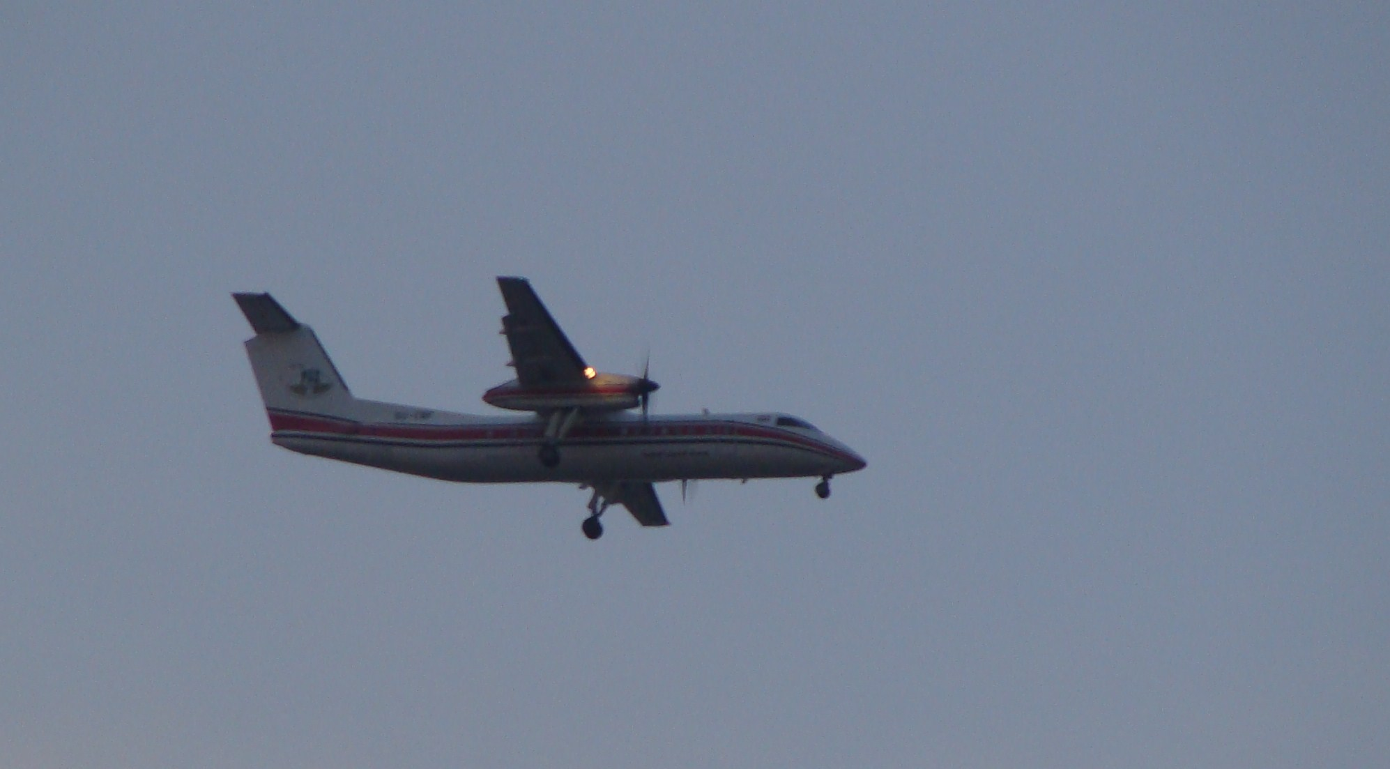 Petroleum Air Services